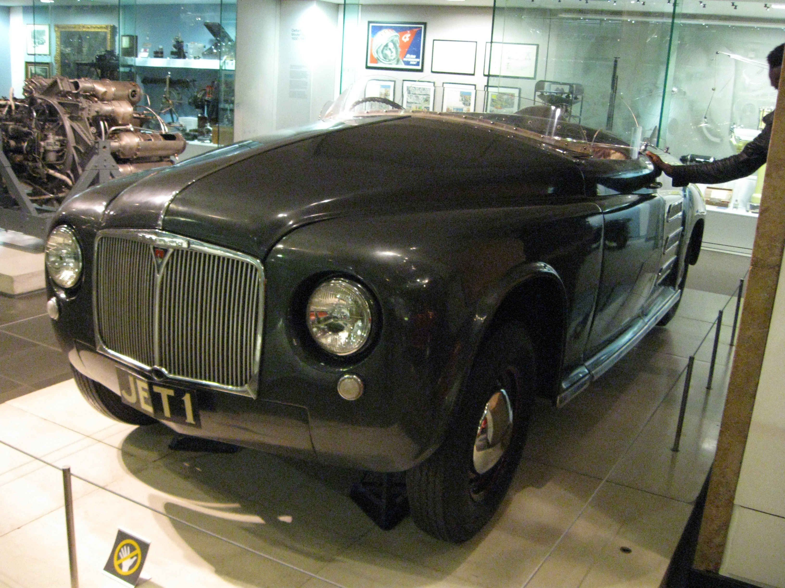 Rover Jet Car